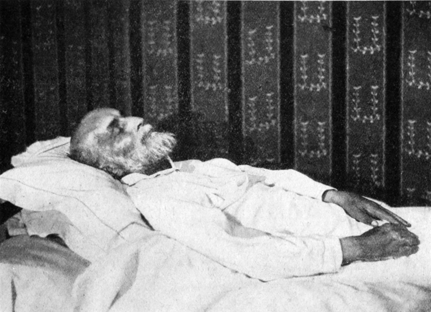 Antoine Bourdelle (1861–1929) on his death-bed.